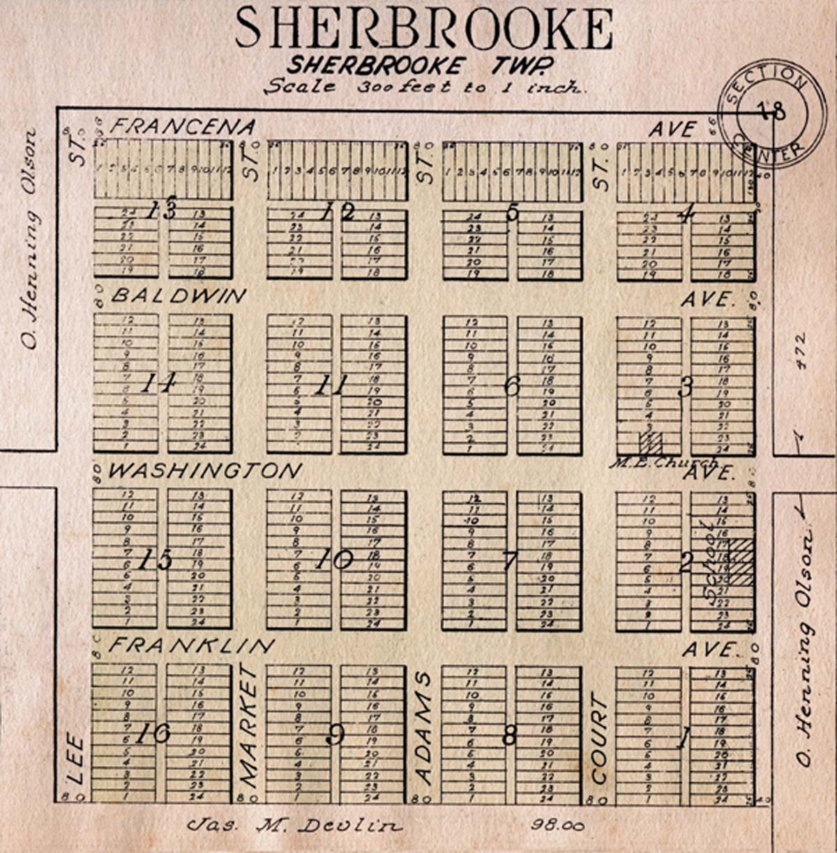 Scanned image of a map detailing the plat of Sherbrooke Village, Steele County, North Dakota dated 1928.